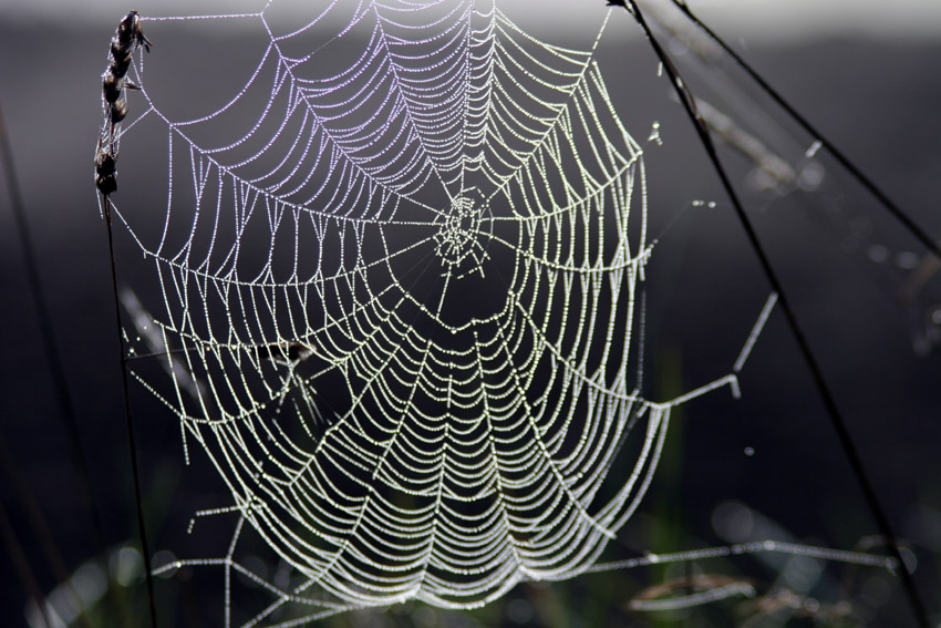 Spinnennetz im Gegenlicht